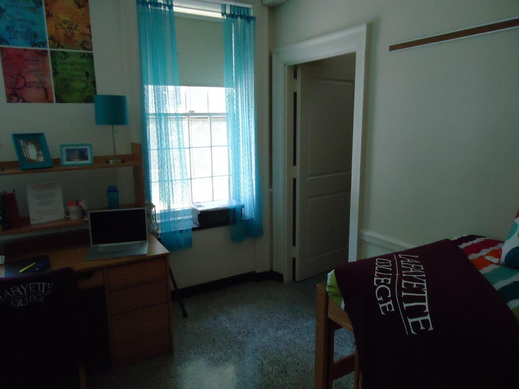 This room was prepared in advance to be showable to prospective students and their parents. A photo from a campus tour of Lafayette College in Easton, Pennsylvania. Lafayette is a liberal arts college on a hill near the Delaware River.